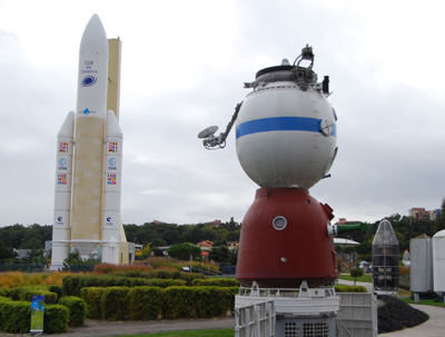 Ariane 5 Rocket, in Cite de l'espace Theme Park, Toulouse, France